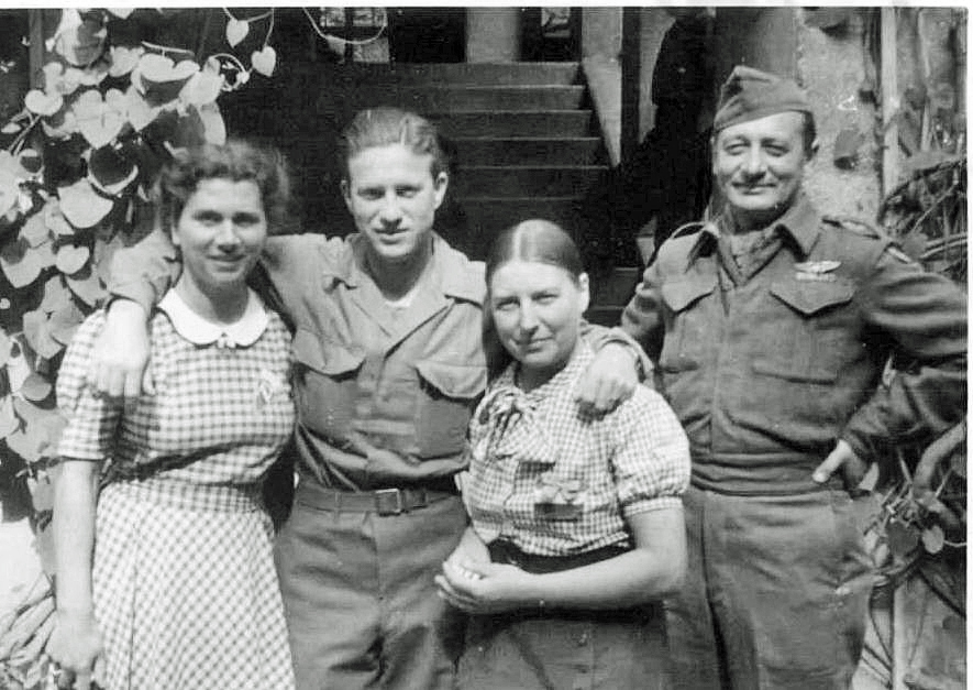 Former Dachau prisoners L.R.Nel Niemandsverdriet and Rennie de Vries-van Ommen with war correspondents Harry Cowe and Sgt. Nathan Asch in Grünwald, Germany